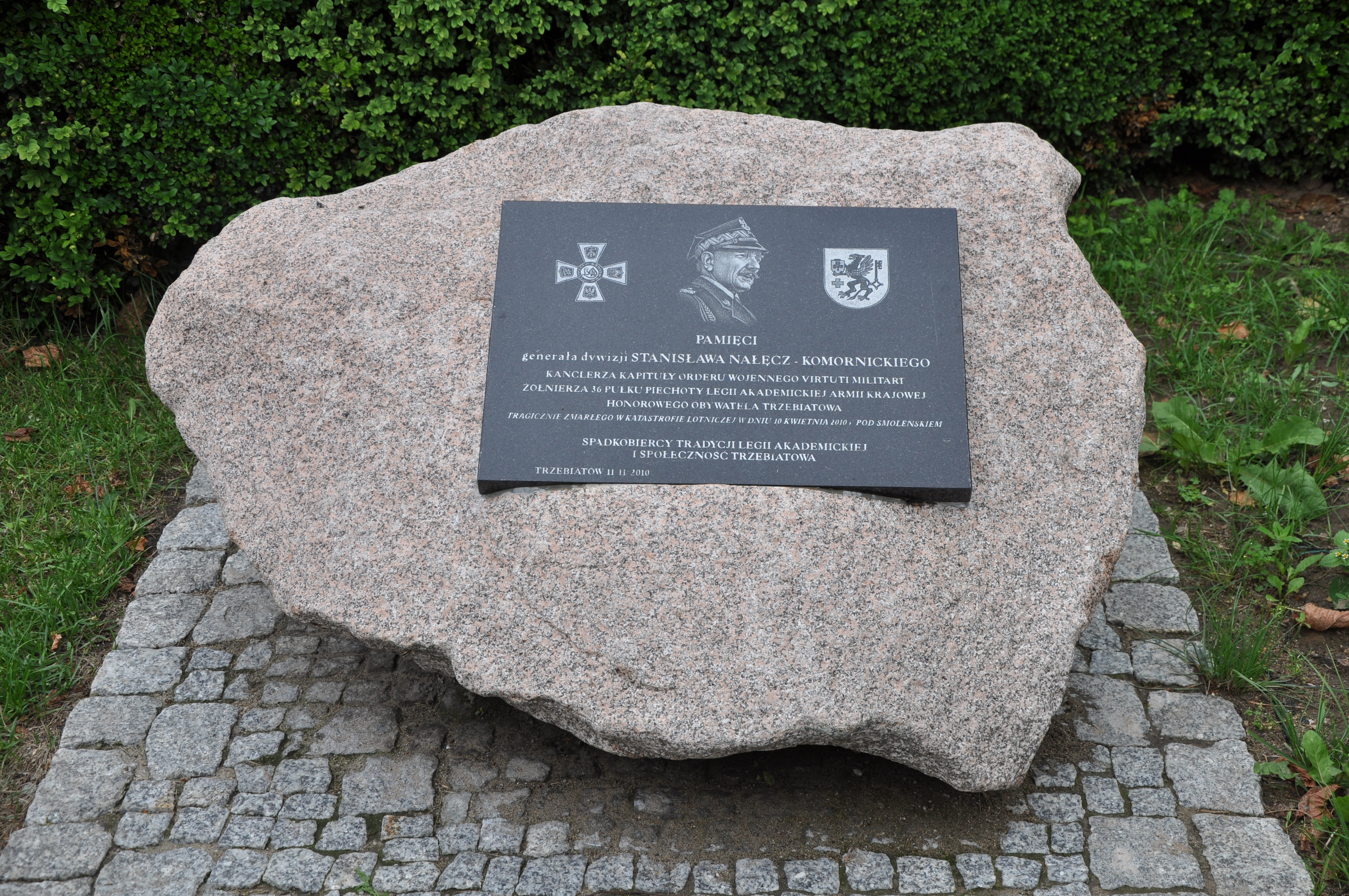 Memorial stone to major-general Stanisław Nałęcz–Komornicki in Trzebiatów